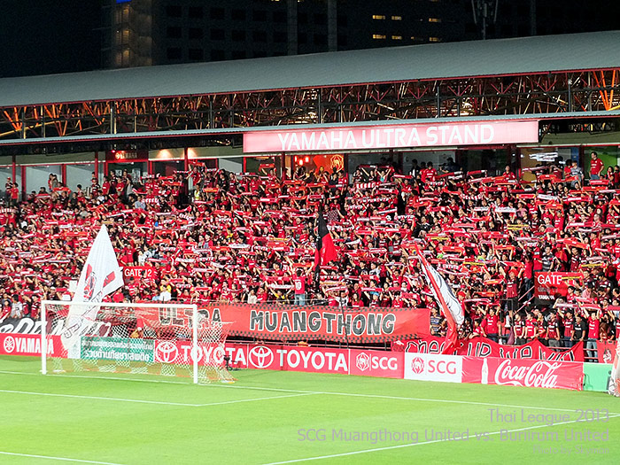 Ultra Muangthong, the fan of SCG Muangthong United in 2013